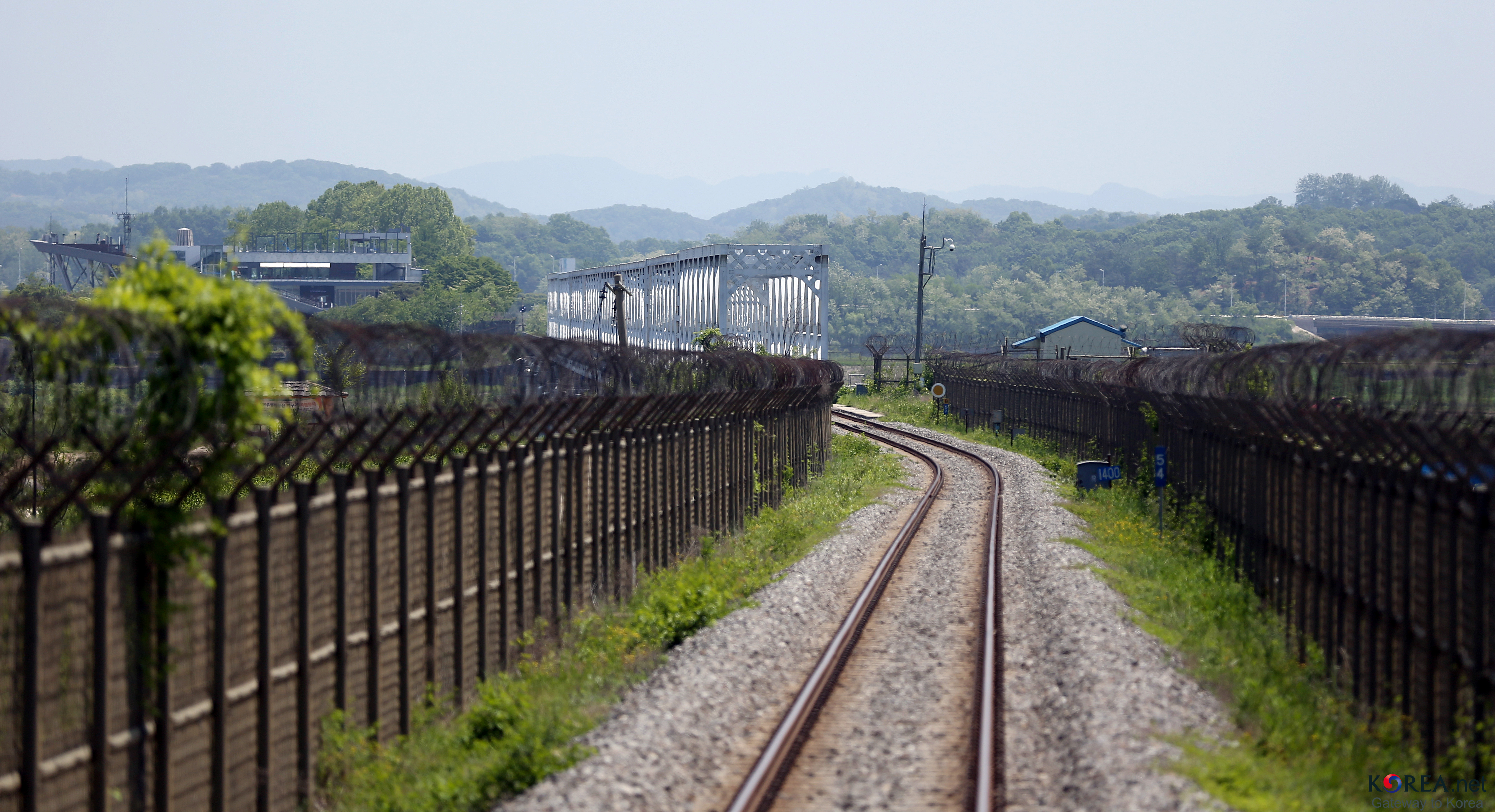 DMZ Train Imjingang Railroad Bridge May 21, 2014 From Seoul Station to Dorasan Station Ministry of Culture, Sports and Tourism Korean Culture and Information Service ( Official Photographer: Jeon Han This official Republic of Korea photograph is licensed as free content, so while restrictions such as personality or privacy rights may apply, in general, manipulations are allowed. If you want a photograph without a watermark, you may ask via Flickr e-mail. 평화열차 DMZ Train 임진강철교 2014-05-21 서울역-도라산역 문화체육관광부 해외문화홍보원 코리아넷 전한